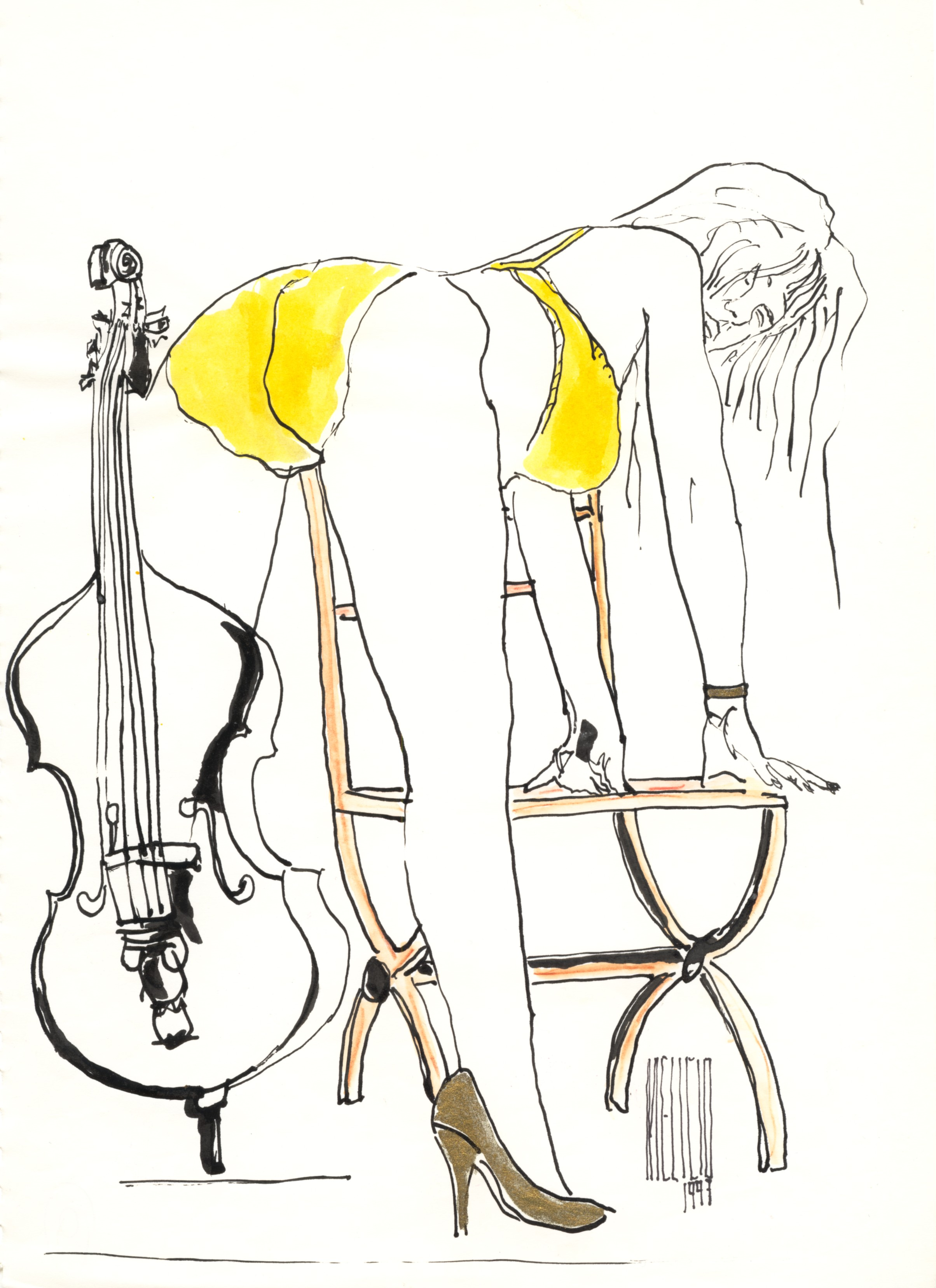 A drawing from the art collection of Jorge Melicio